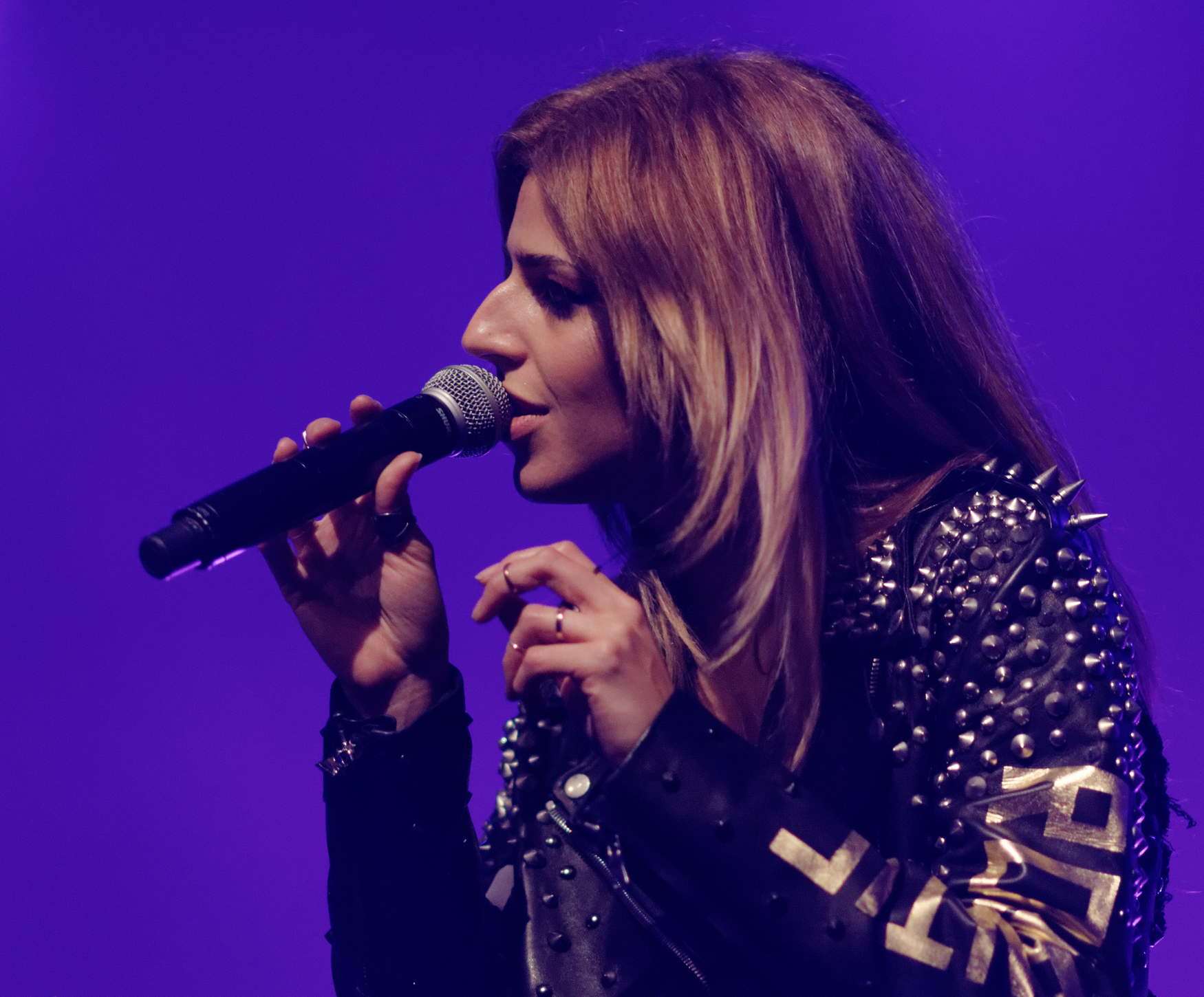 Brooke Fraser performing live at the Fonda Theatre in Los Angeles, California on Thursday January 29th, 2015. Part of Brooke's "Brutal Romantic" Tour.